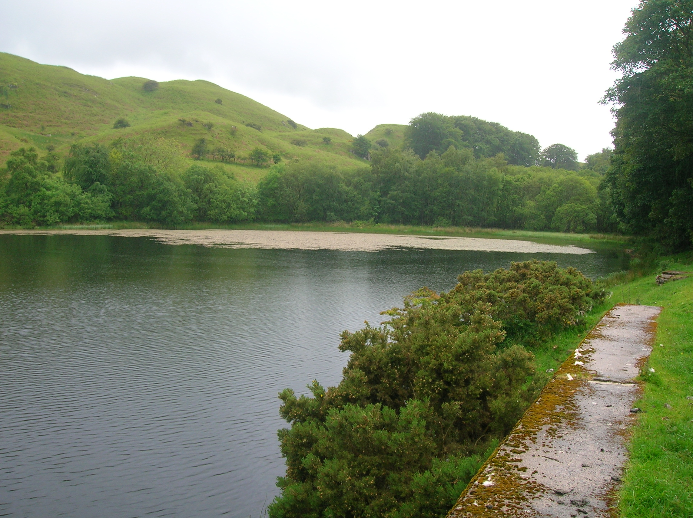 Lochspouts Loch looking east. Maybole, South Ayrshire, Scotland